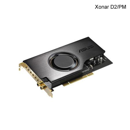 ASUS Xonar D2 PM, a PCI based sound card